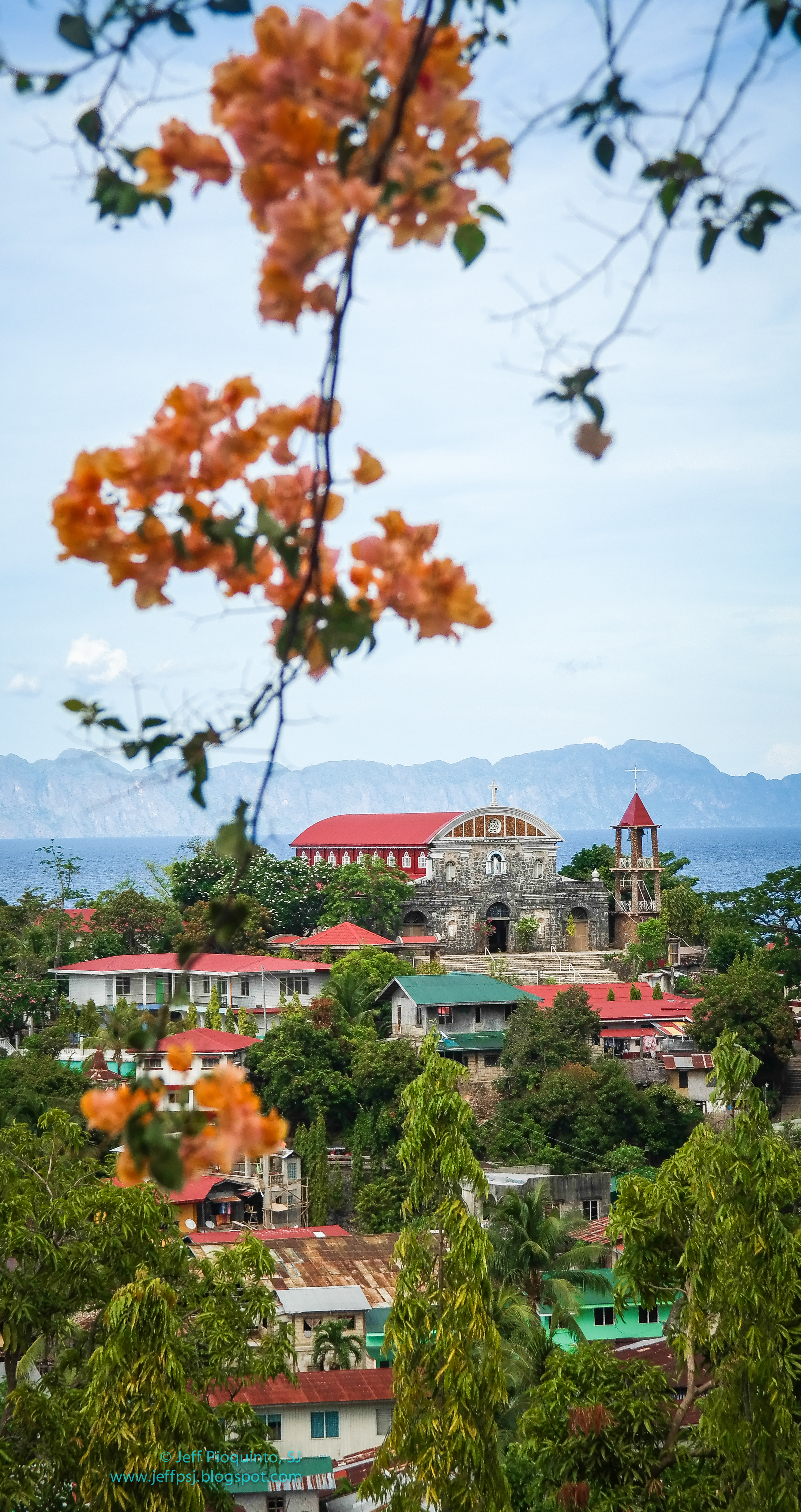 Culion Island in Palawan